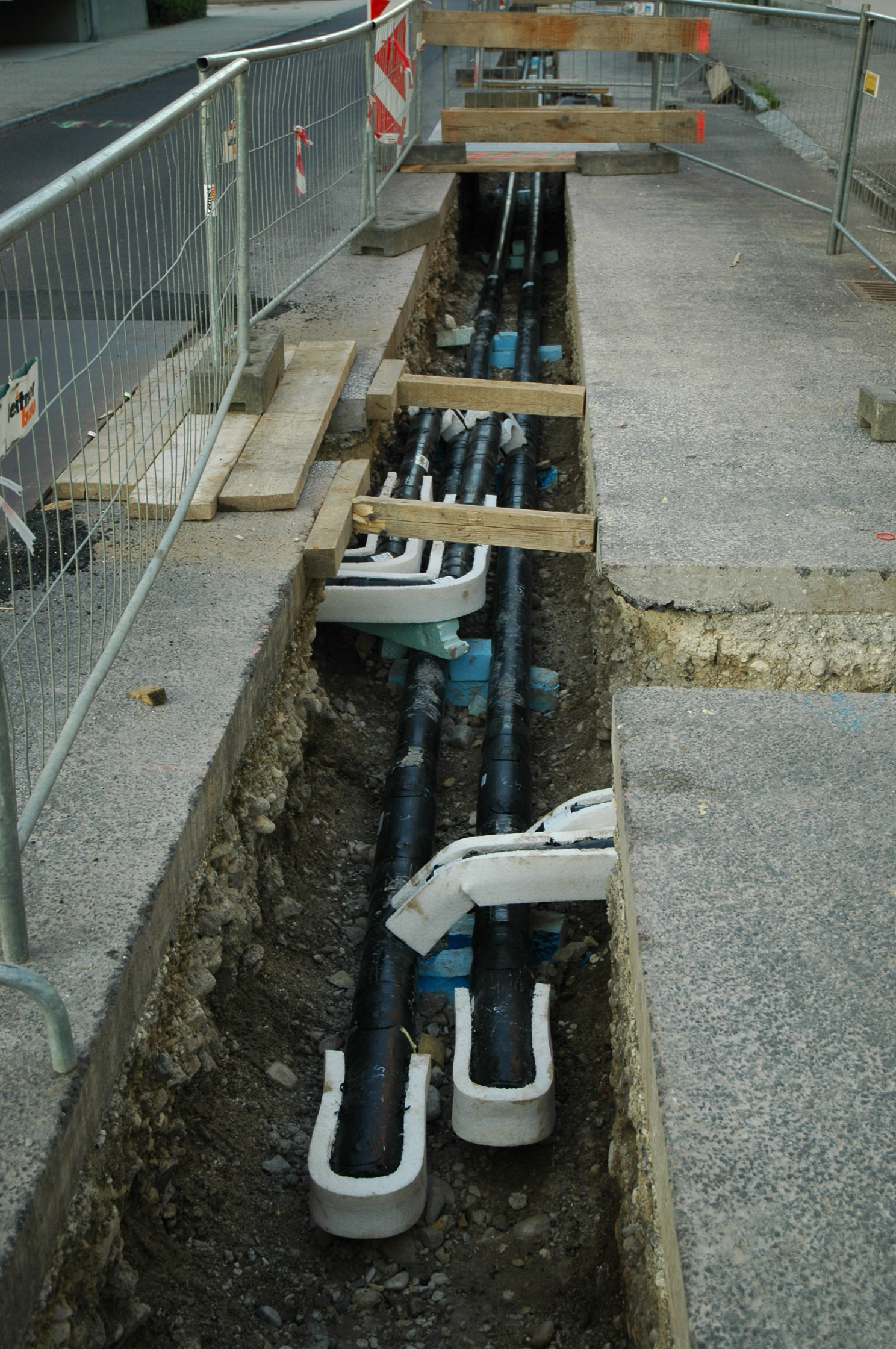 district heatinp pipe from Isolpus in Austria